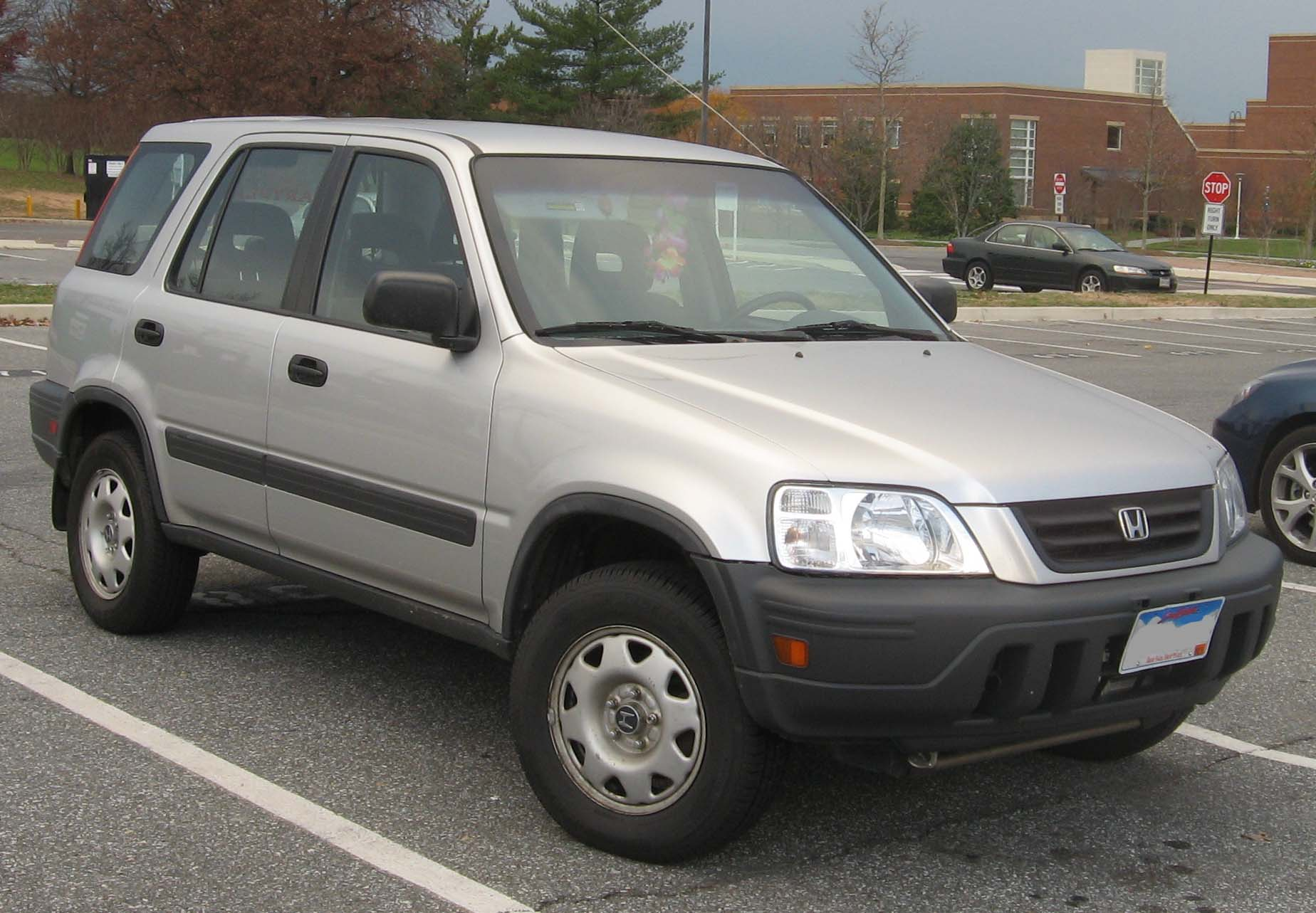 Honda CR-V photographed in College Park, Maryland, USA.